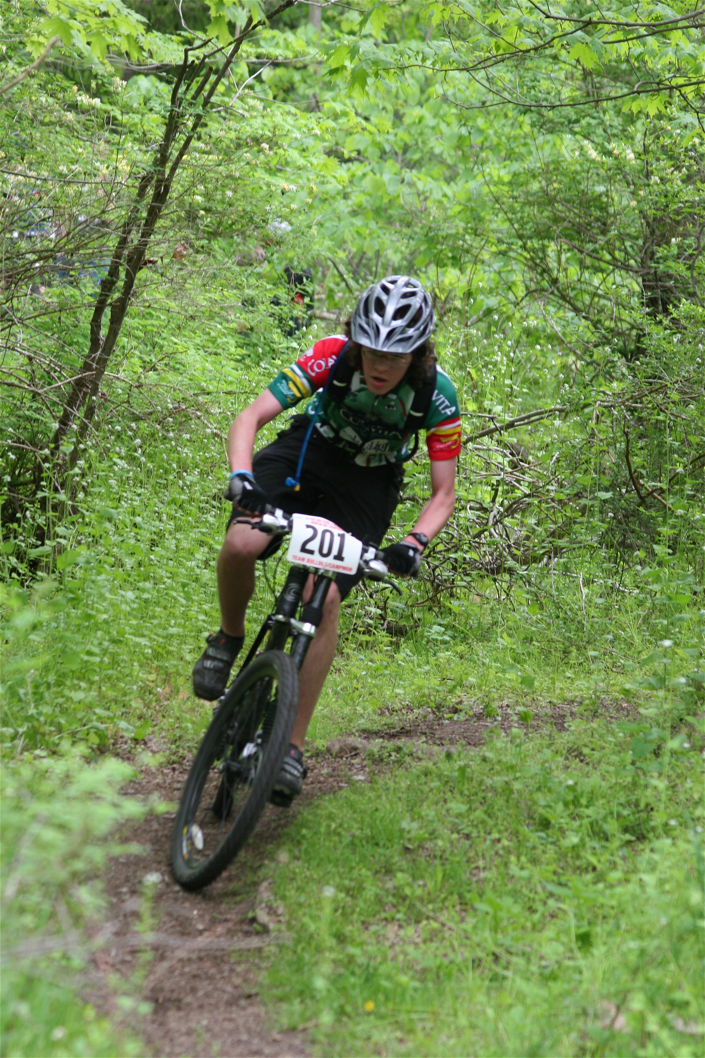 A cross-country mountain biker during a race. (May 13, 2006. New Jersey High School State Championship)